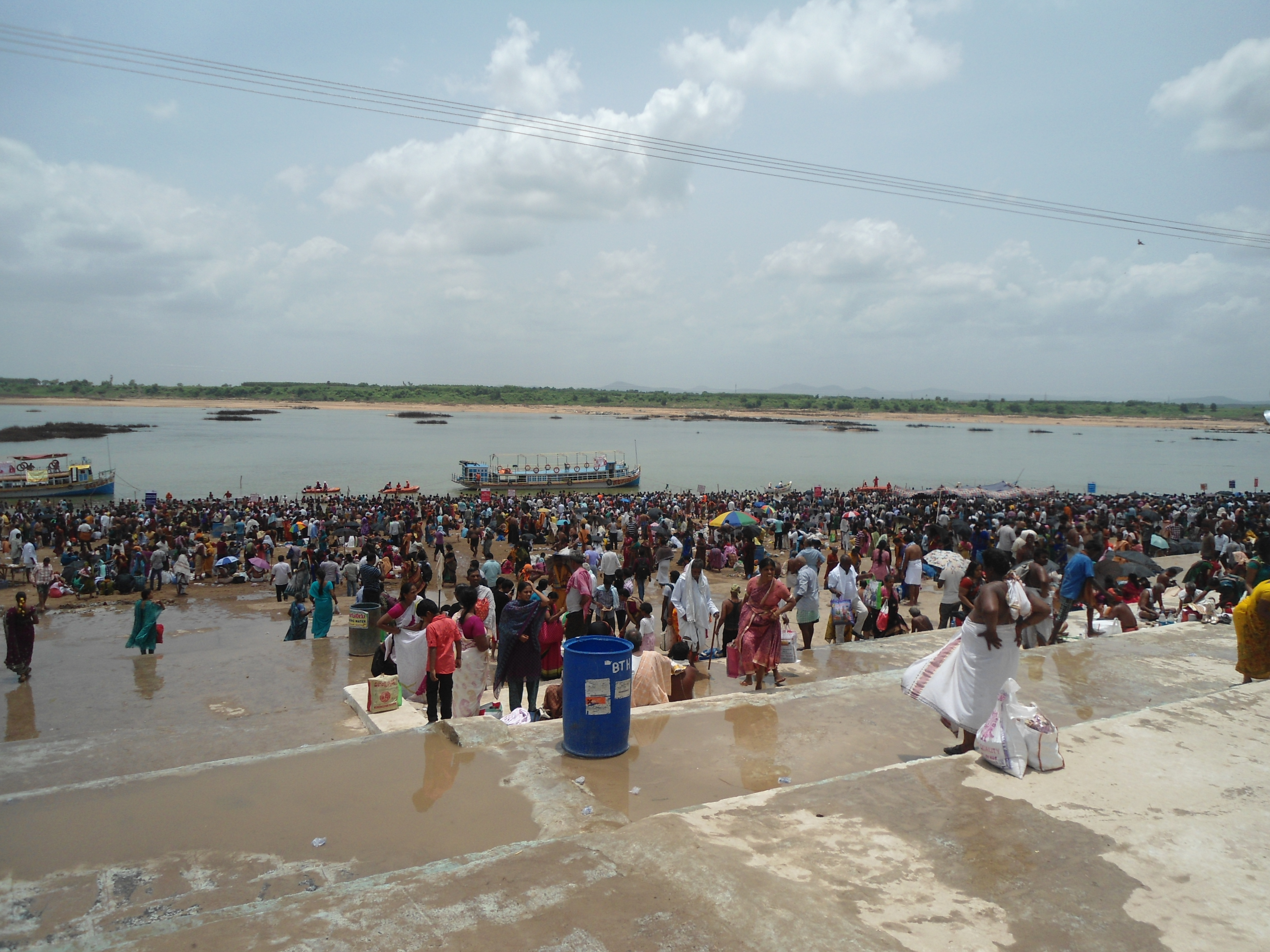 Devotees taking a holy dip in River Godavari at Bhadrachalam during Pushkaram in 2015